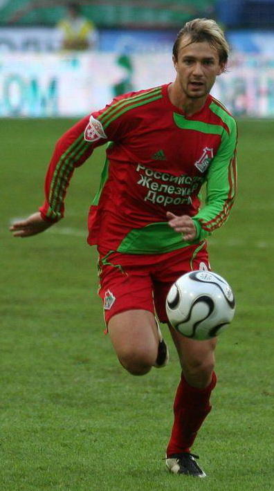 Dmitry Sychev